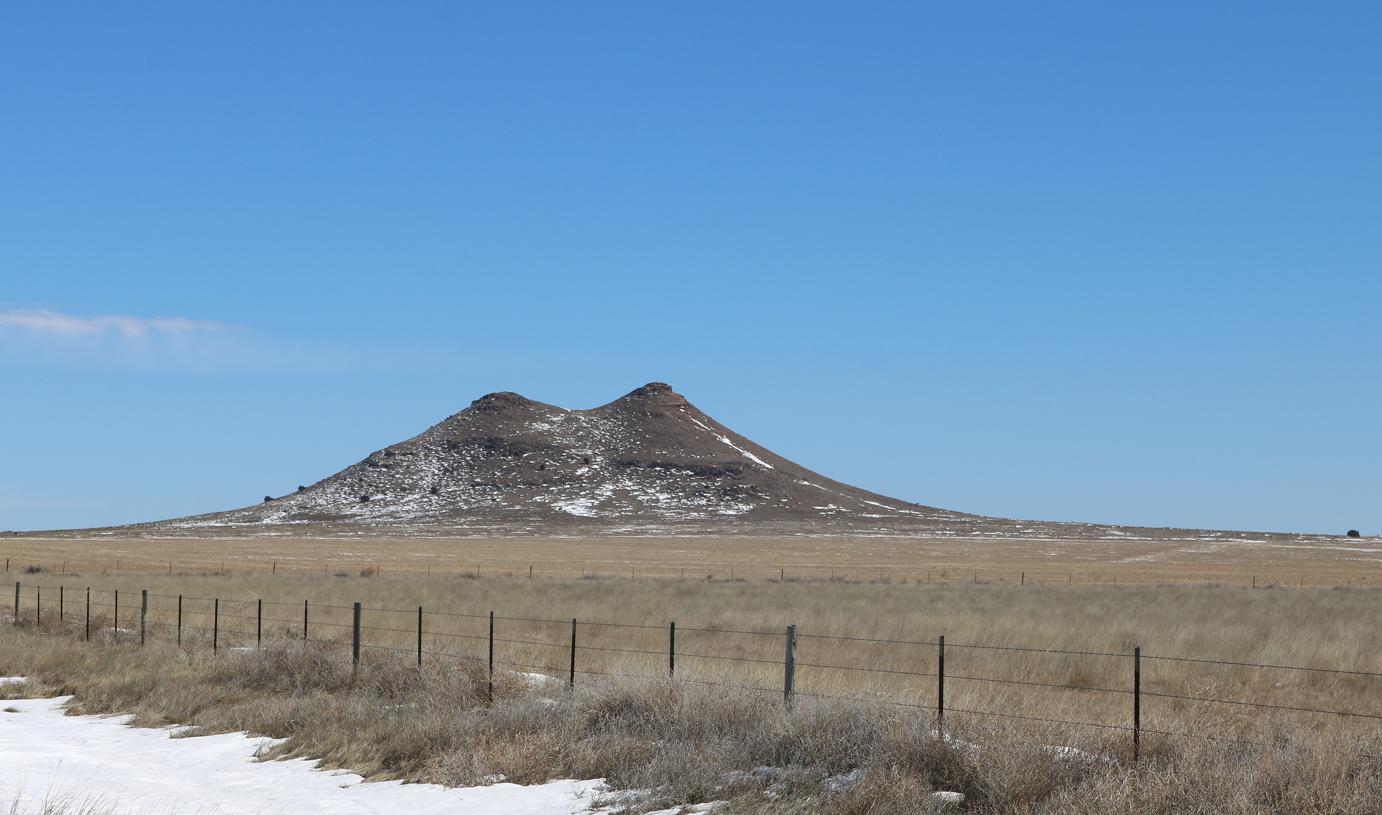 Two Buttes, a dual-peaked mountain in Prowers County, Colorado. The southern peak, on the right, is the tallest of the two, and has an elevation of 4,701 feet (1,433 meters).